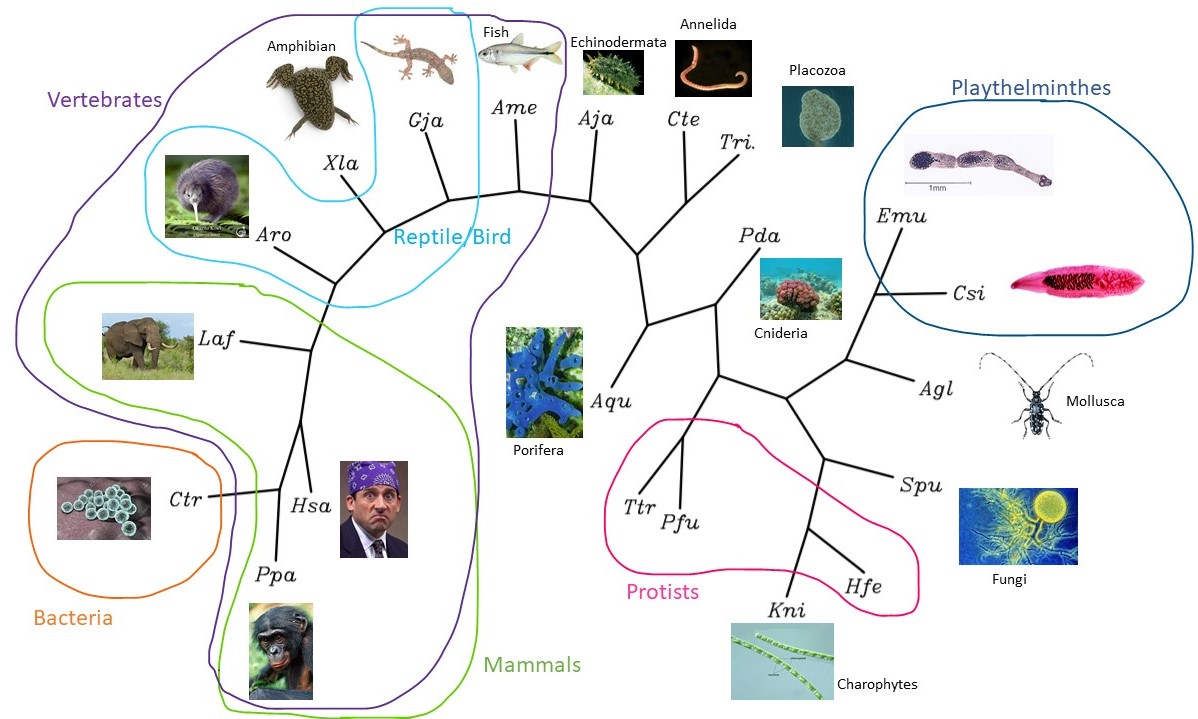 Orthologs of TEX9 and their evolutionary history compared to human TEX9